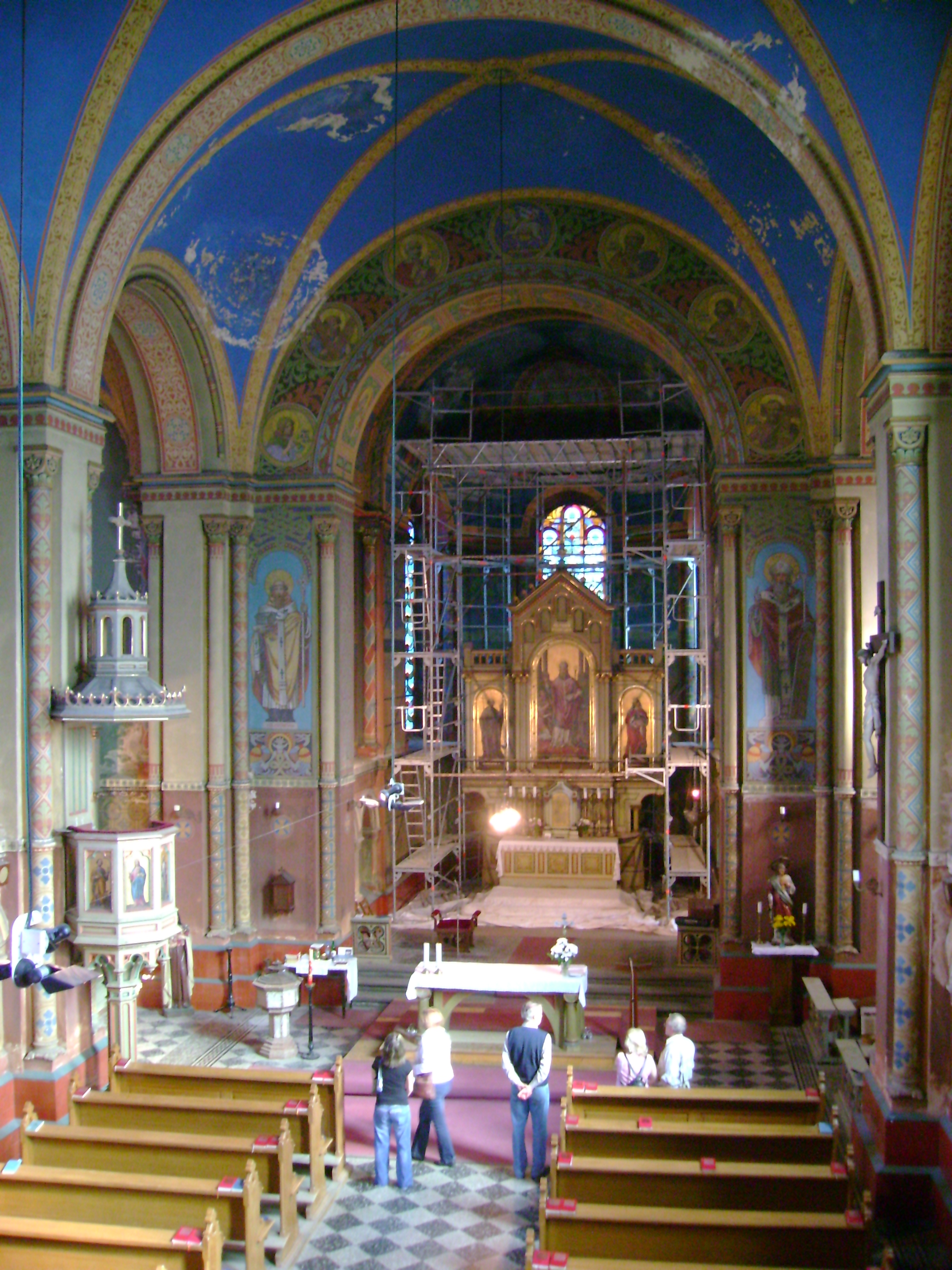 Church of Saint Remigius in Prague-Čakovice, the Czech Republic – interior.